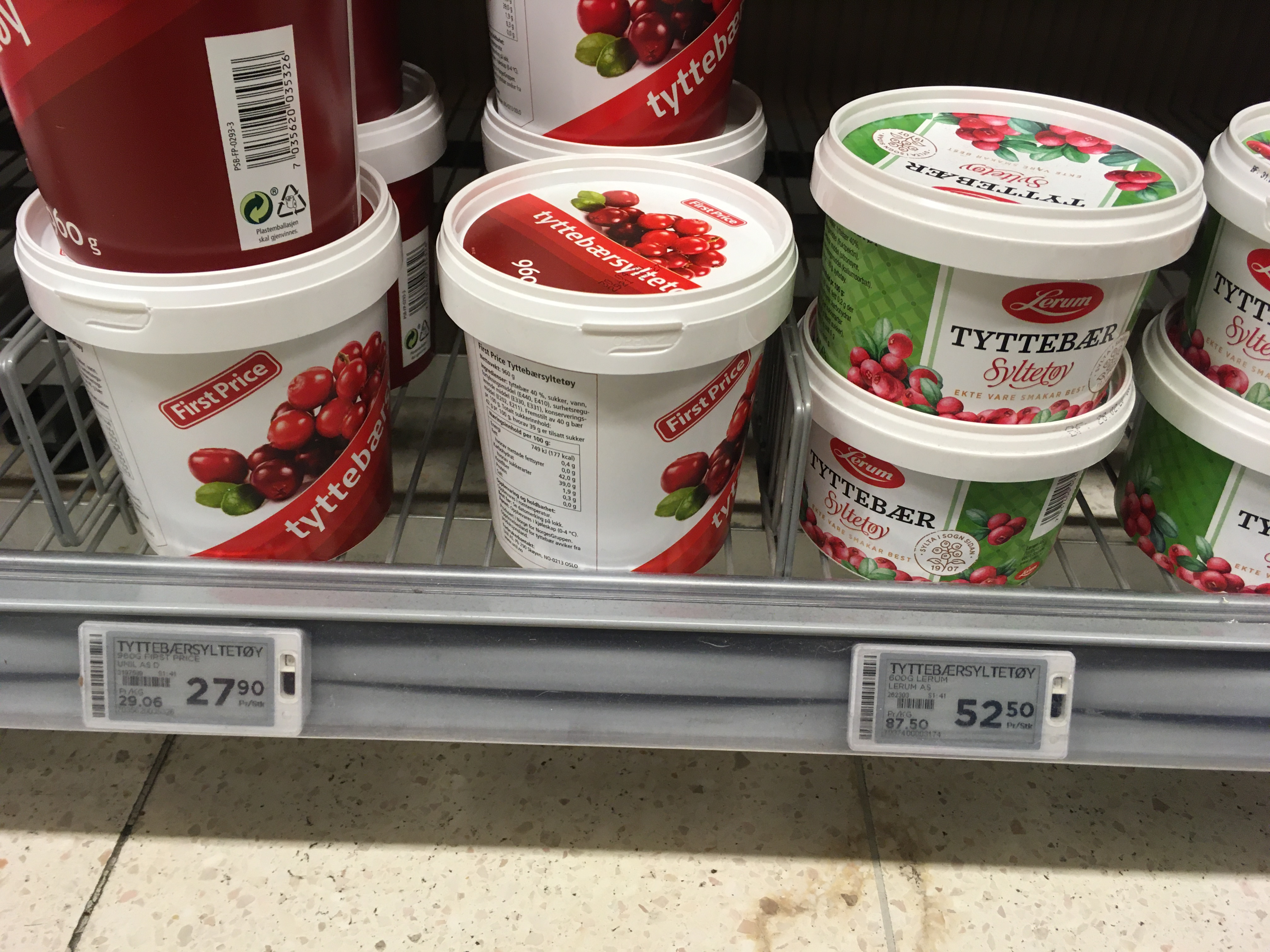 Tyttebær in Trongheim